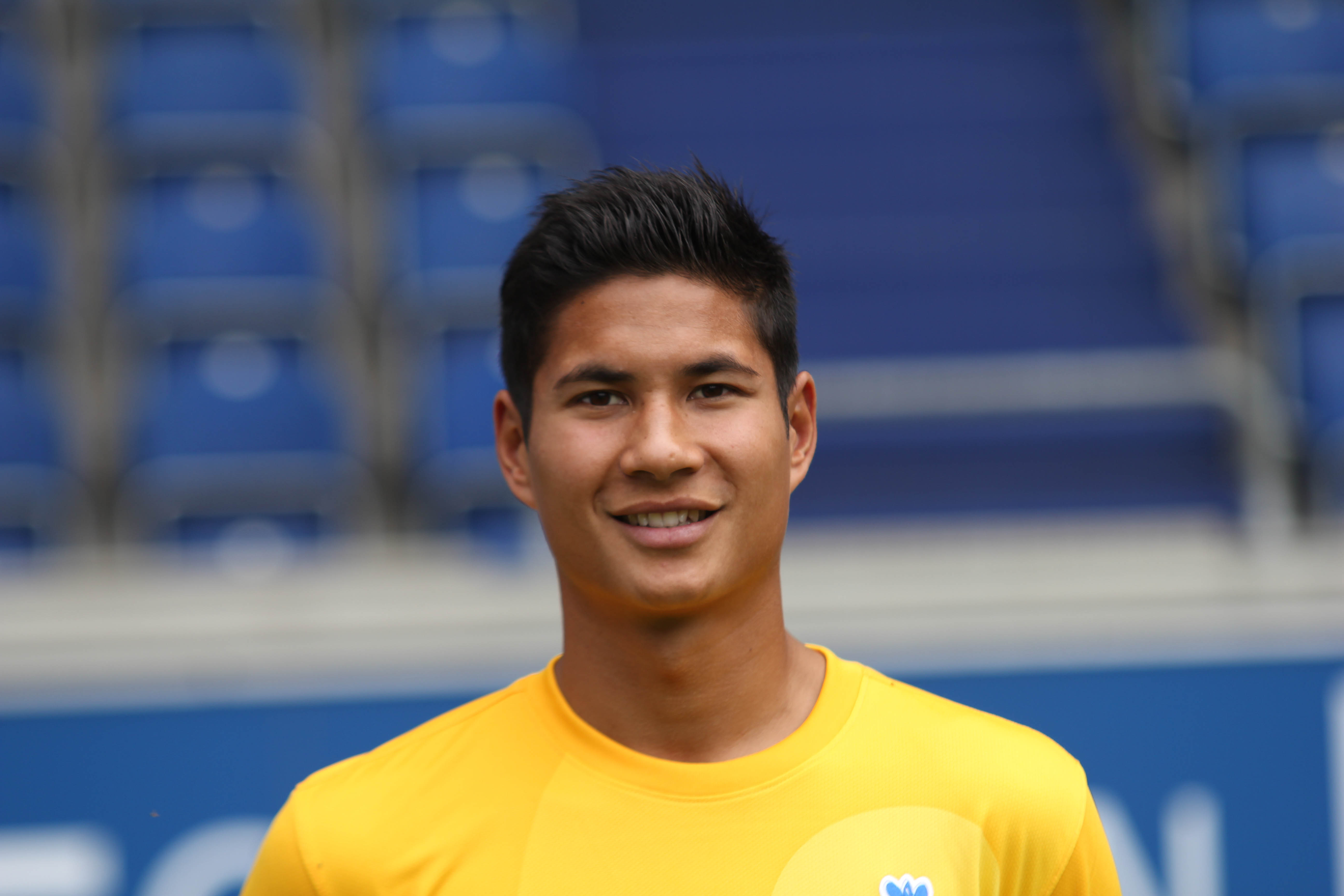 Filipino-German football goalkeeper Roland Müller, MSV Duisburg